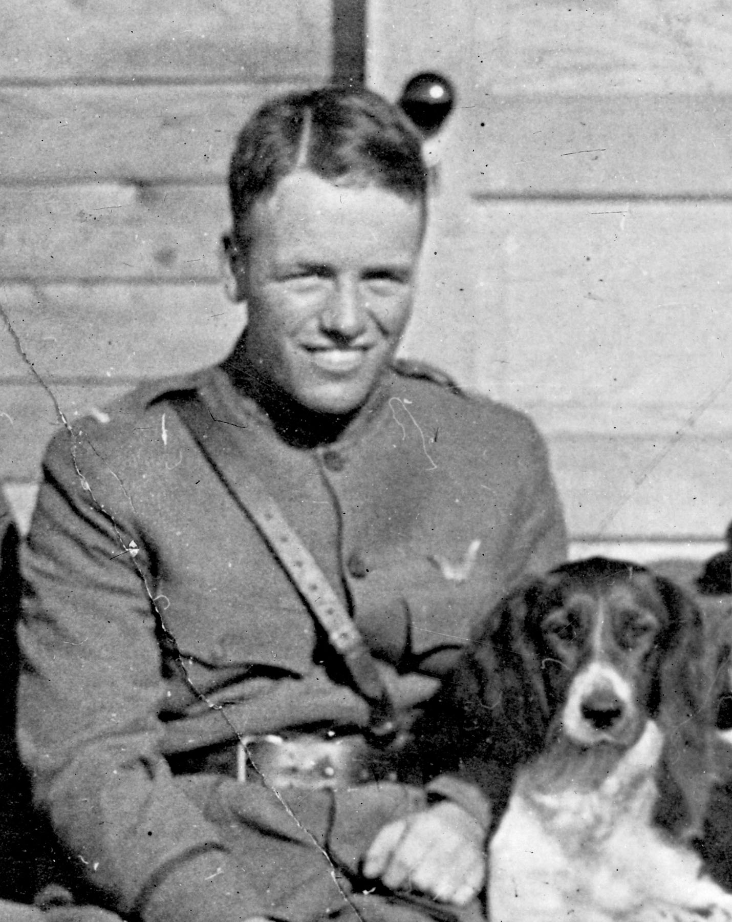 Lt. Quentin Roosevelt, the youngest son of President Theodore Roosevelt, a pilot in the 95th Aero Squadron, Air Service, United States Army. On July 14, 1918, he died after being shot down behind German lines.